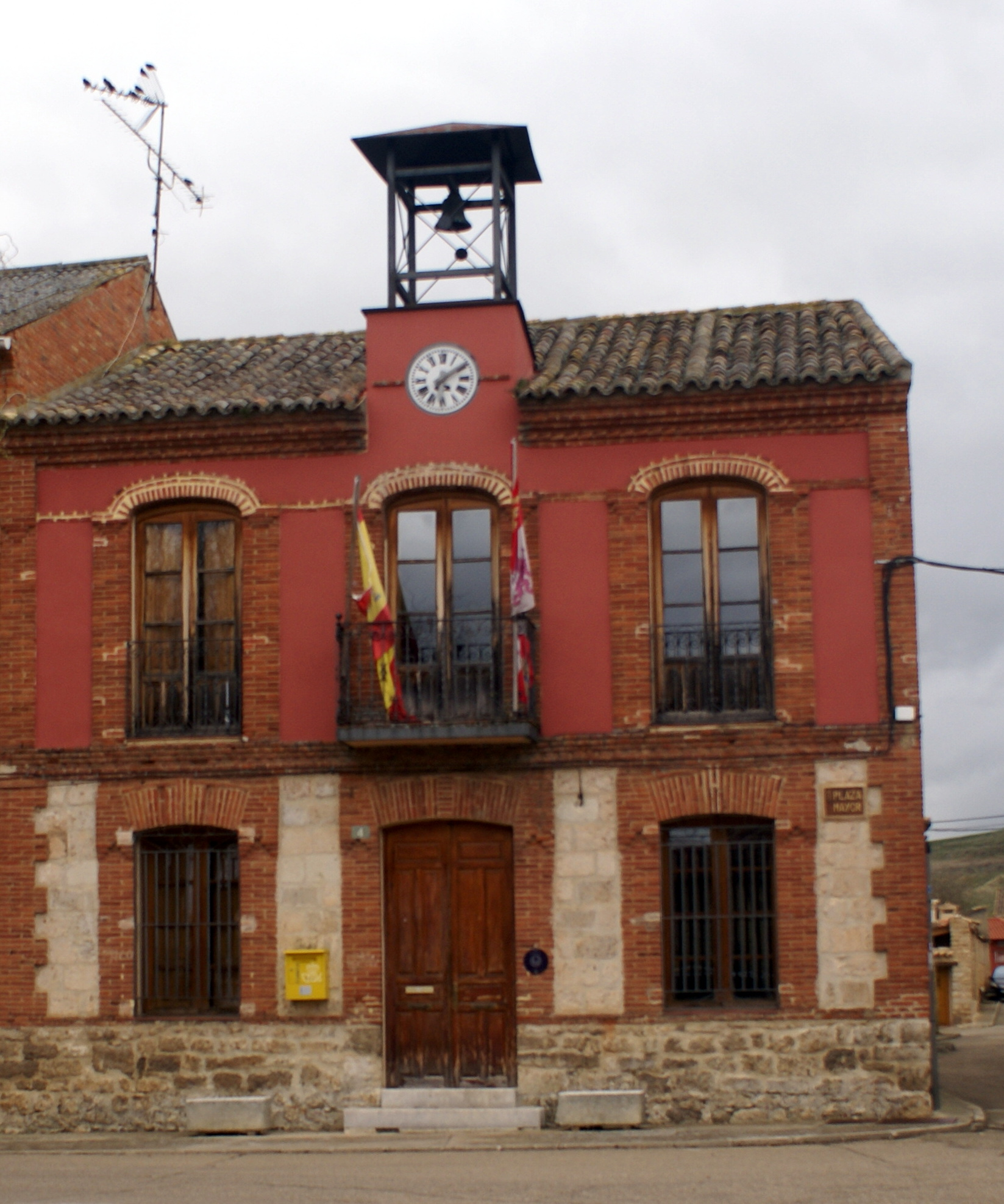 Town hall of Trigueros del Valle, Valladolid, Spain.